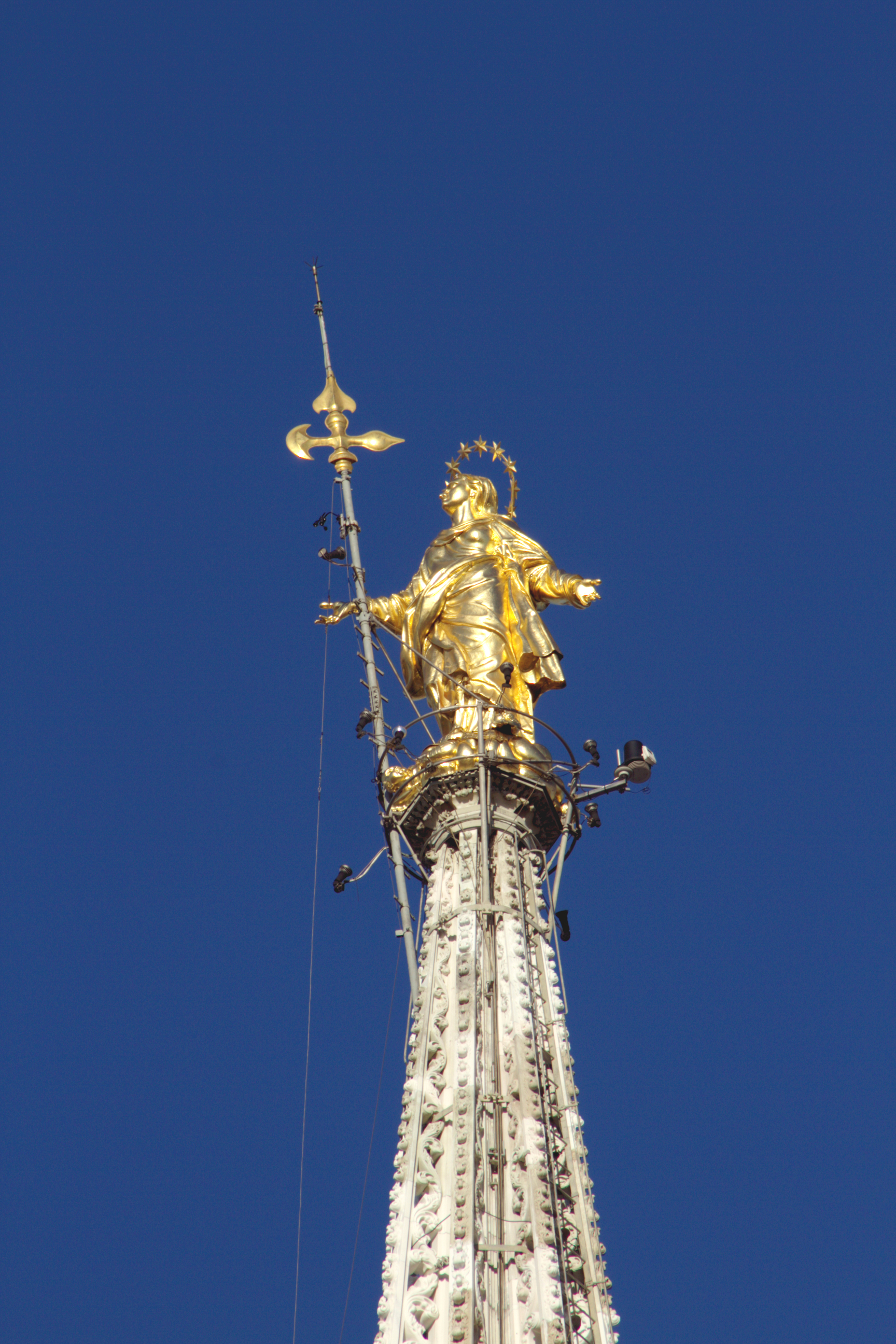 Madonnina - Duomo